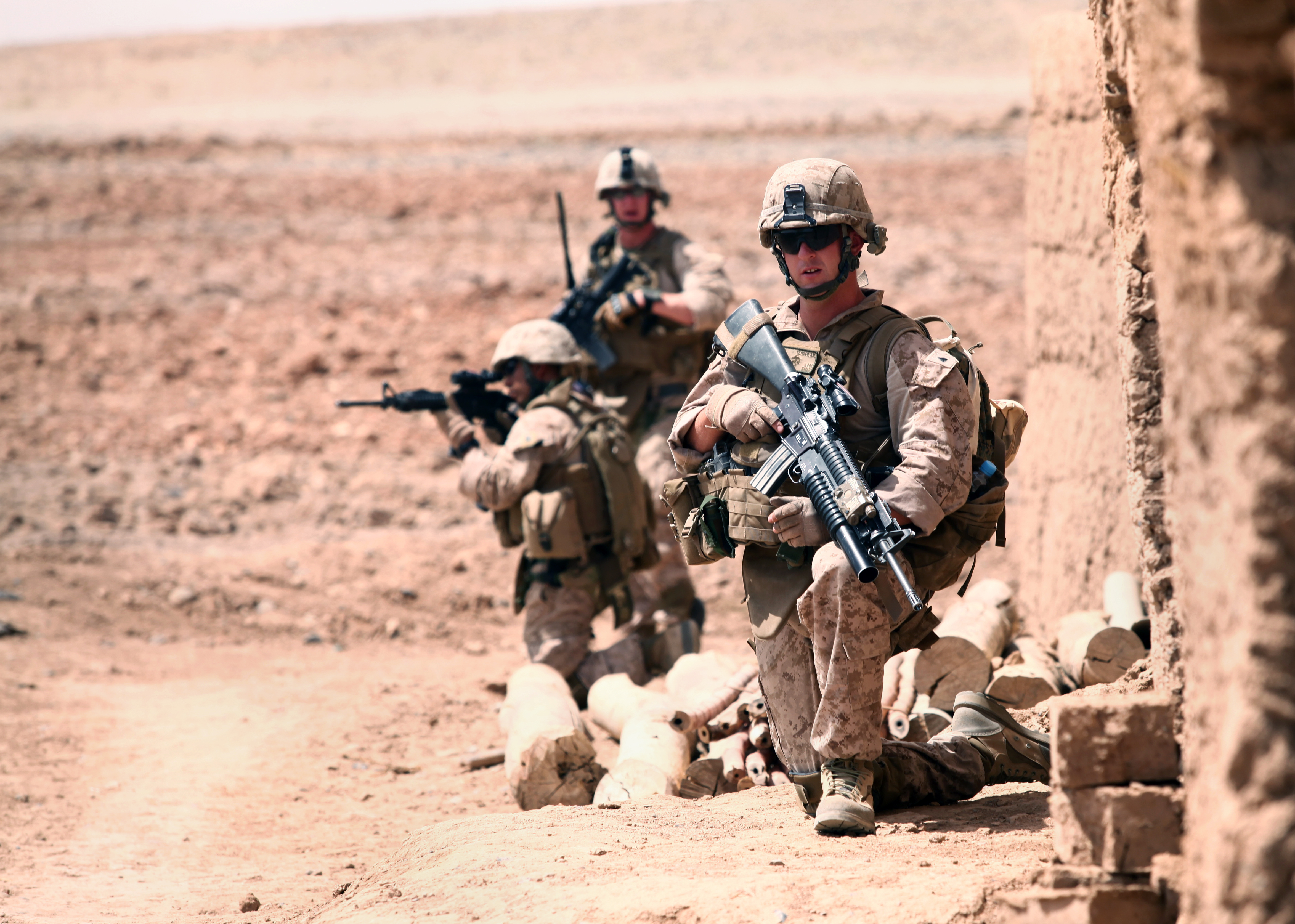 U.S. Marines with Golf Battery, 2nd Battalion, 10th Marine Regiment (2/10) set up security and await an Explosive Ordinance Disposal team during a patrol through local Afghan settlements in Habbib Abad, Afghanistan, May 28, 2012. 2/10 conducted the patrol to interact with and record data from the local population of Boldak, in support of the International Security Assistance Force. (U.S. Marine Corps photo by Lance Cpl. Robert Reeves)